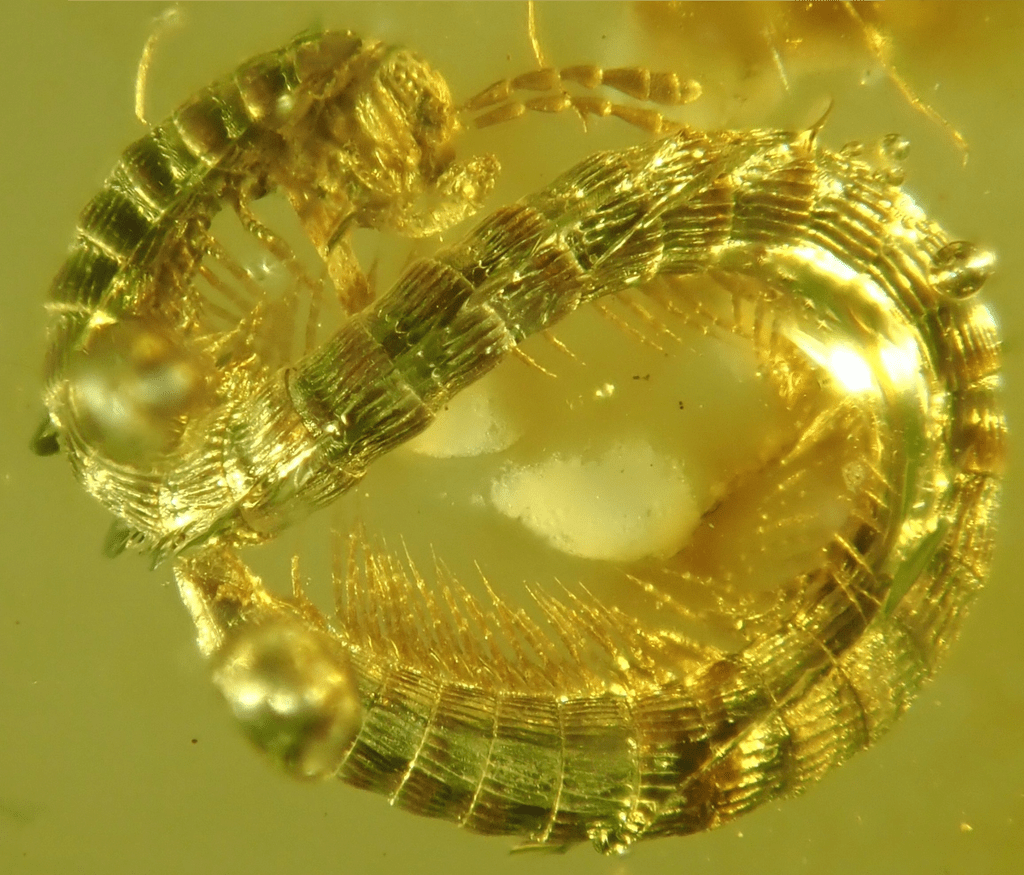 Burmanopetalum inexpectatum, female holotype (ZFMK-MYR07366)